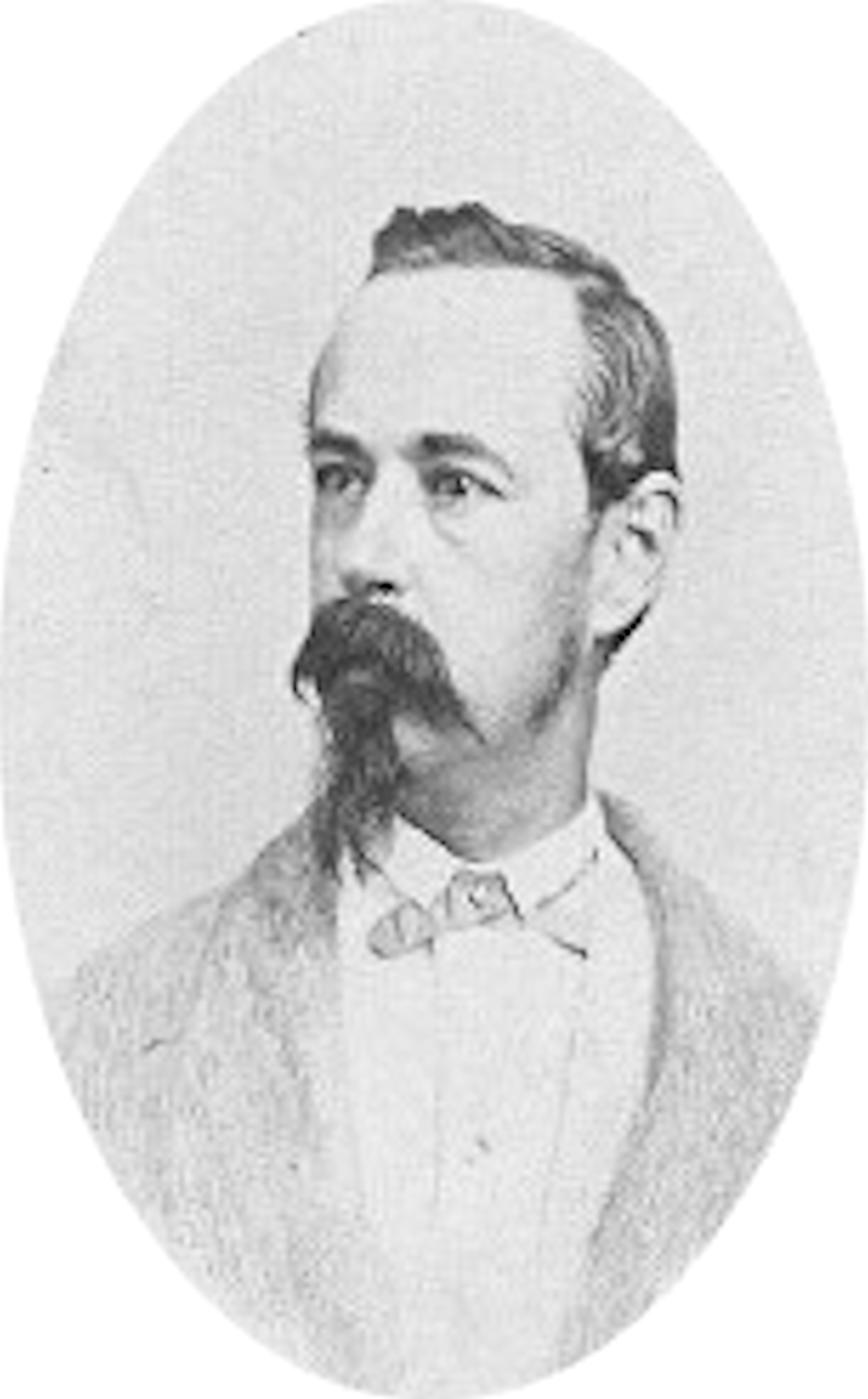 Medal of Honor winner Paul Ambrose Oliver